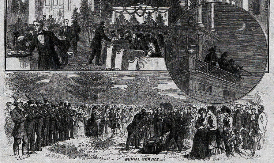 Tower music, funeral service, and burial in the Moravian community in Bethlehem, Pennsylvania.